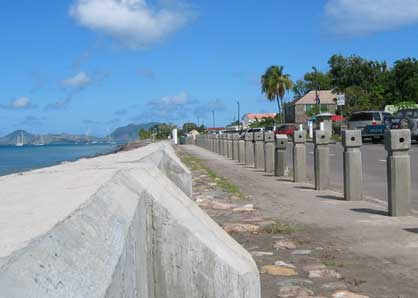 The seawall in Charlestown, Nevis, West Indies, with the island of St. Kitts in the background.